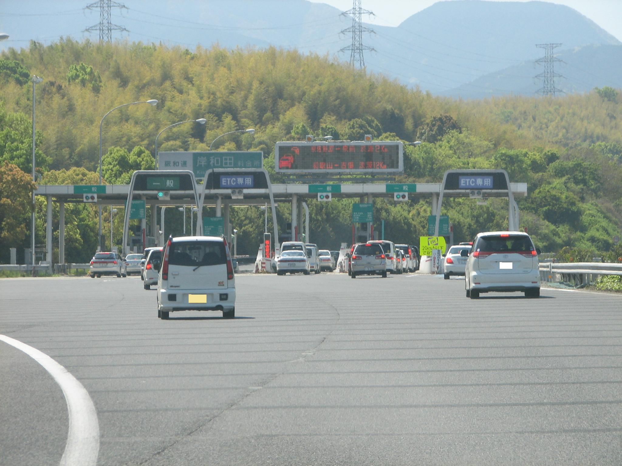 Kishiwada Tollgate